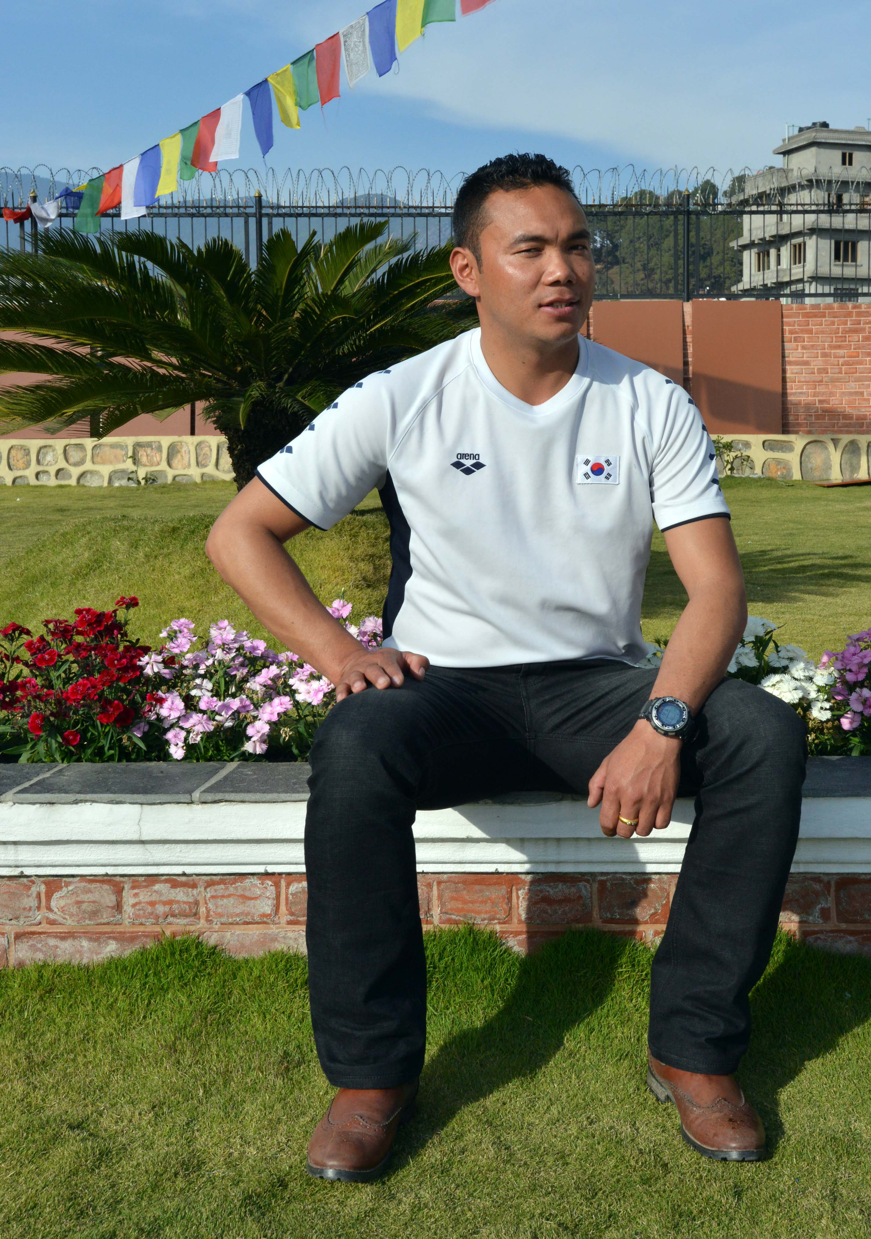 this is photo of Chhang Dawa Sherpa the Mountaineer taken by me. He Climbed All the 14 Peaks of the world.